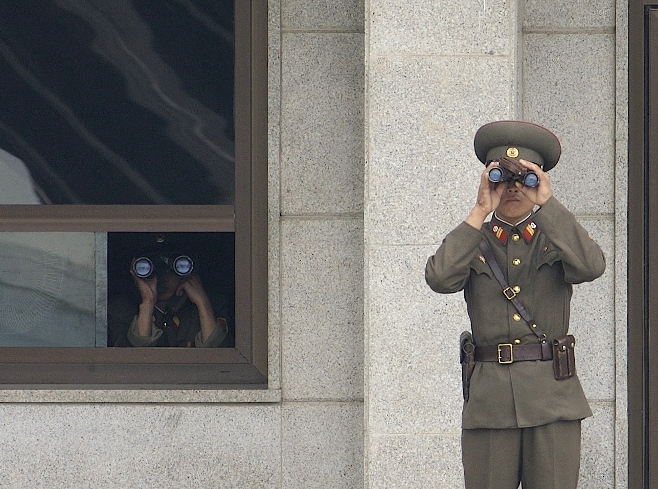 Soldiers from the Korean People's Army look south while on duty in the Joint Security Area U.S. Army official Korean Demilitarized Zone image archive